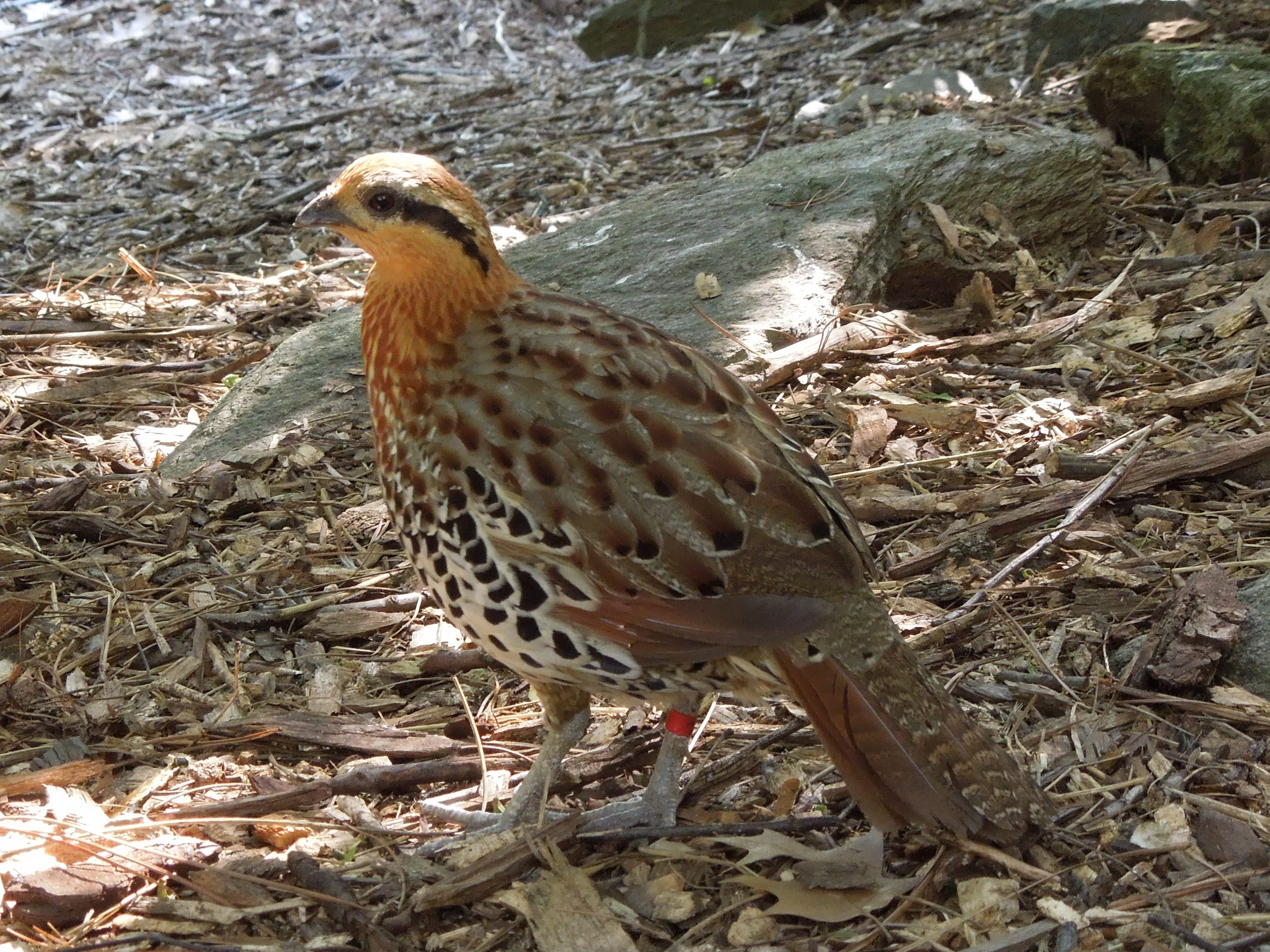 An adult male Mountain Bamboo Partridge at Smithsonian National Zoo, Washington, USA.